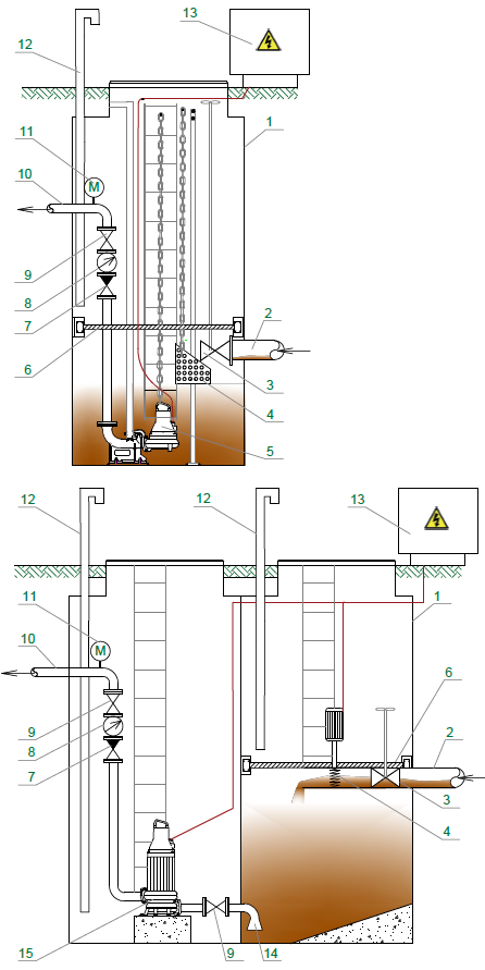 Types of sewage pumping stations